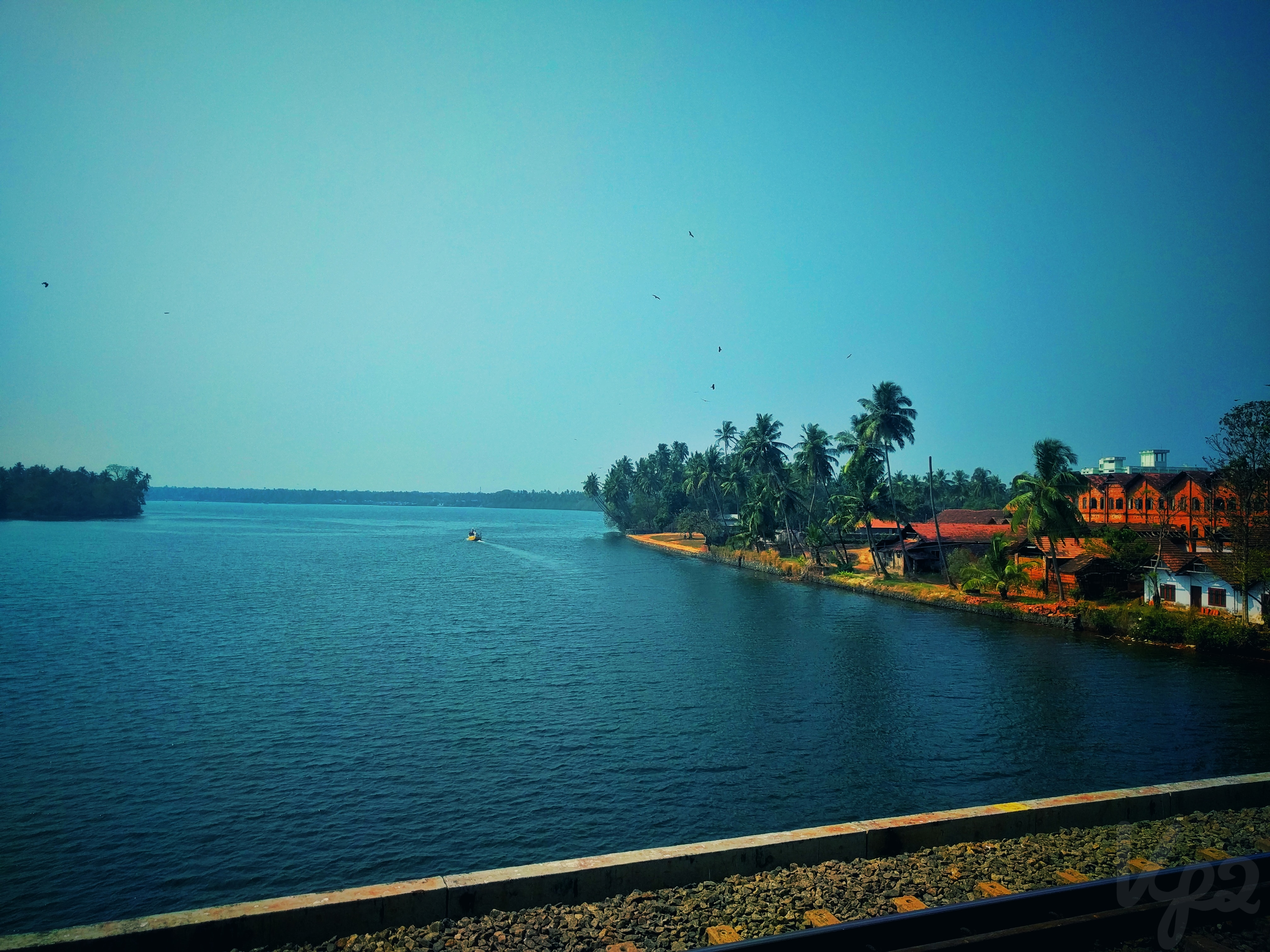 A view of the Chaliyar river from the famed Feroke Old Bridge